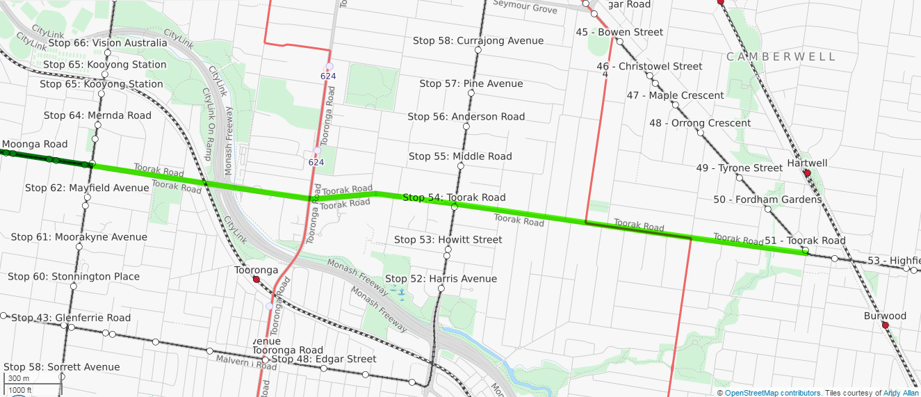 A map of the proposed extension to the Route 8 tram in Melbourne. Dark green (on the left) shows the current route, light green shows the proposed route, red lines show bus routes. Created with OpenStreetMap and .